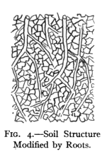 19th century knowledge farming soil structure modified by roots